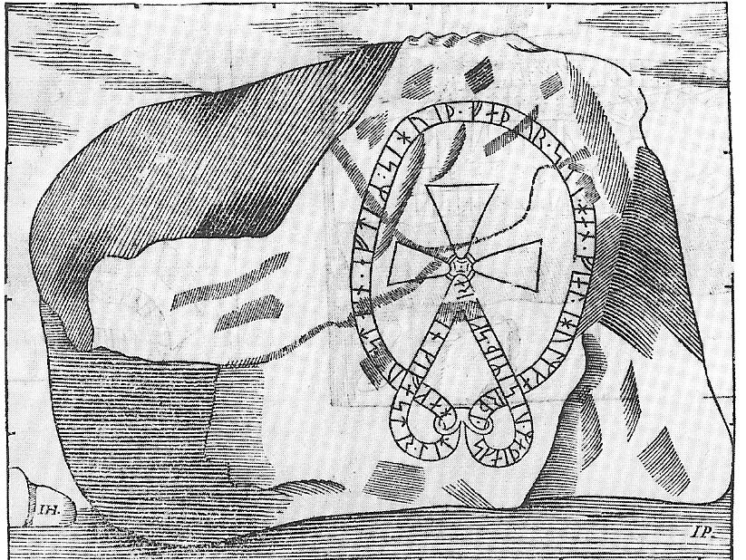 picture of runestone